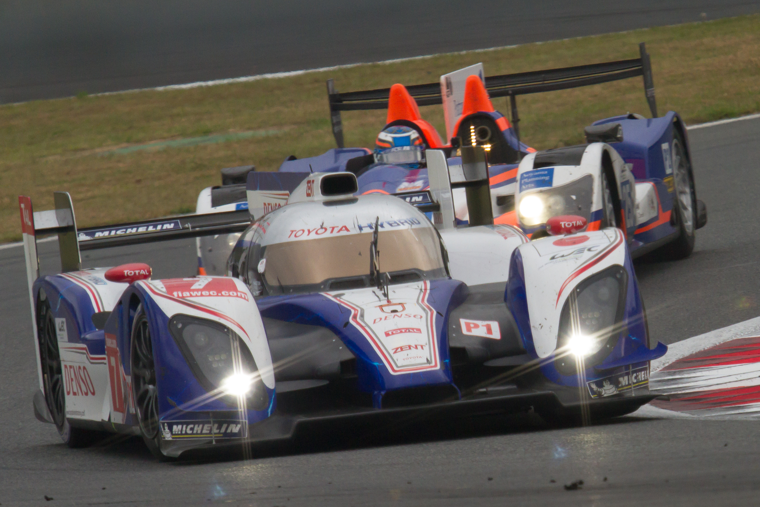 FIA World Endurance Championship 2012 Rd.7 6 Hours of Fuji: #7 Toyota TS030 Hybrid (Toyota Racing)